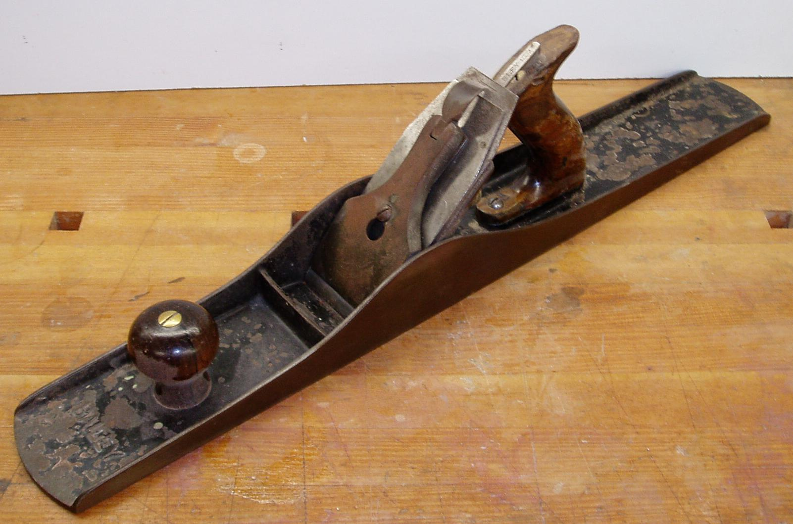 Picture of Stanley No7C jointer plane, a general purpose bench plane, (dated to 1919) taken 16 October 2005 by Luigi Zanasi (myself) on my workbench using a Olympus digital camera.